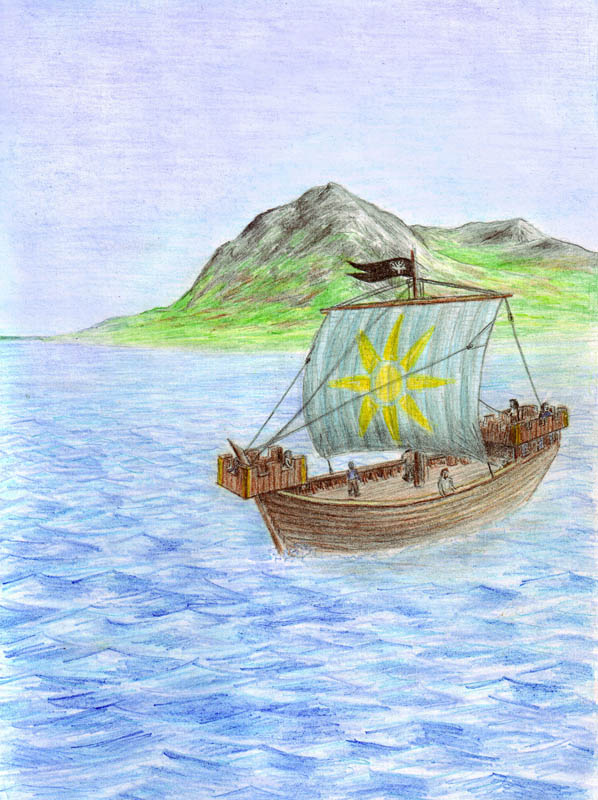 Tolfalas, island on the Great sea, close to the shores of Gondor